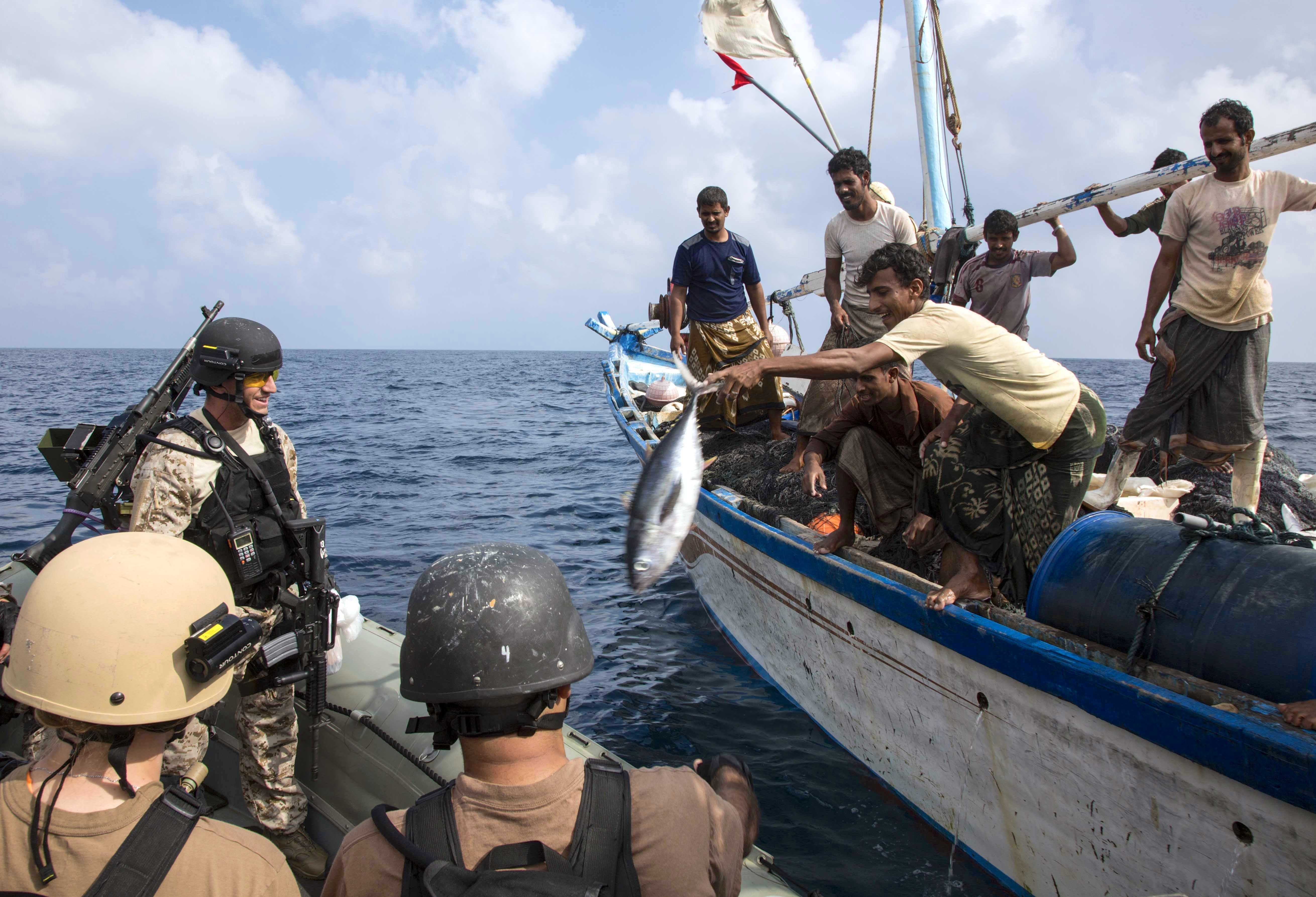 GULF OF ADEN (Nov. 21, 2013) A Yemeni fisherman gives a fish to Sailors assigned to the visit, board, search and seizure (VBSS) team from the guided-missile destroyer USS Mason (DDG 87). Mason is deployed as part of the Harry S. Truman Carrier Strike Group supporting maritime security operations and theater security cooperation efforts in the U.S. 5th Fleet area of responsibility. (U.S. Navy photo by Mass Communication Specialist 2nd Class Rob Aylward/Released) Camera Model: Canon EOS 5D Mark III EXIF data